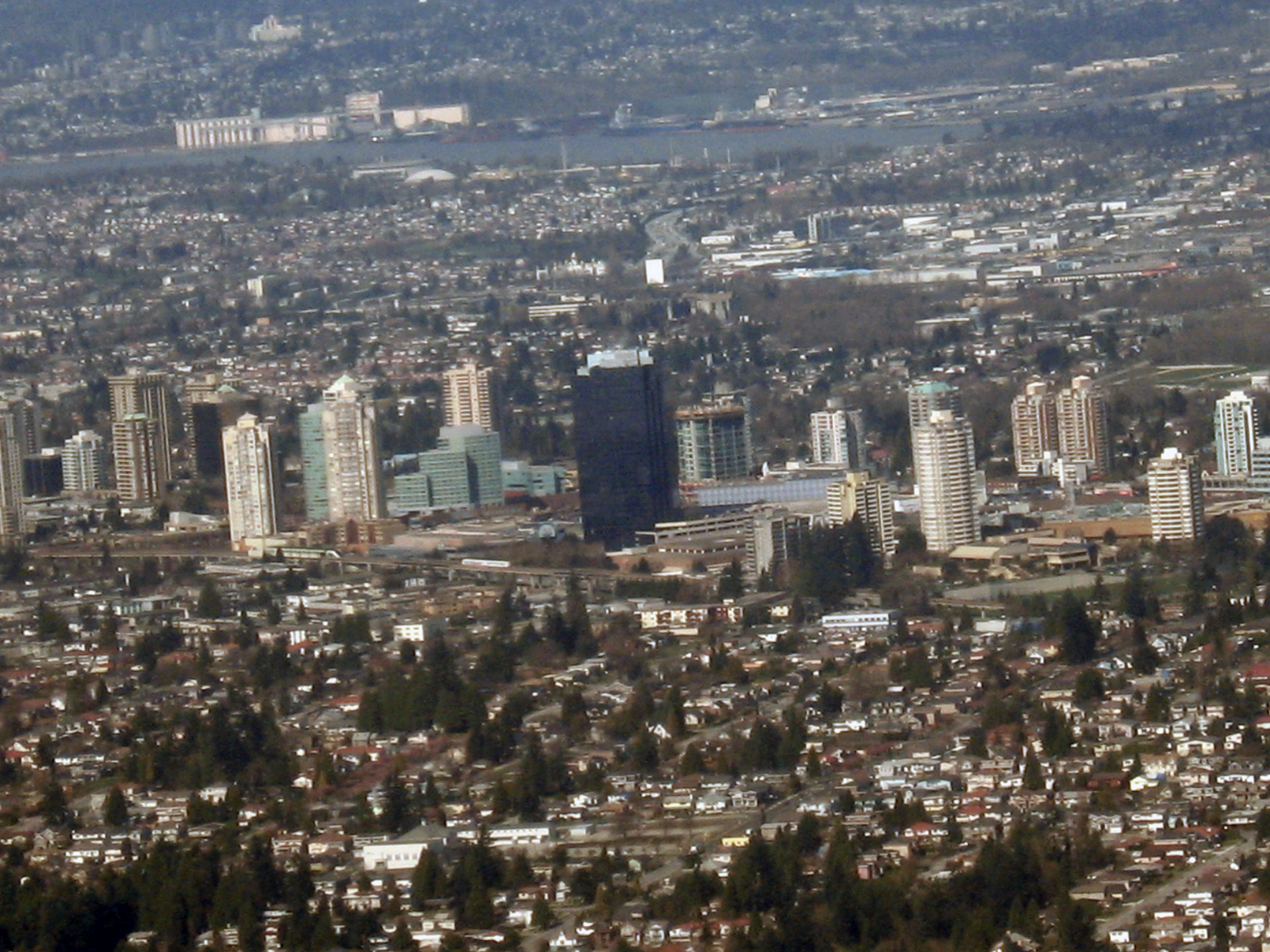 Burnaby Metrotown from the air